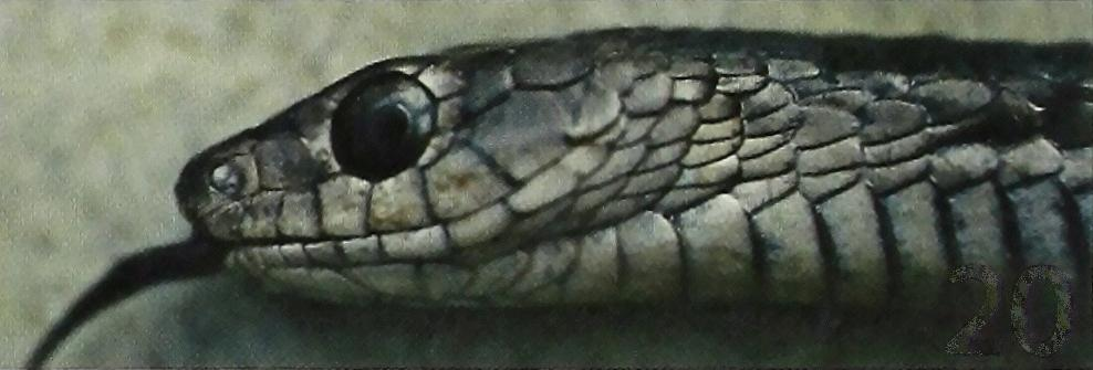 Bonn zoological bulletin - Thrasops occidentalis Cut-out from original (Bonn zoological bulletin (2012) (20394365815).jpg) shown below